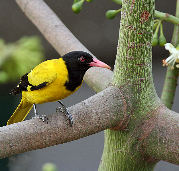 Black-hooded Oriole, Oriolus xanthornus- Adult male in Kapok Ceiba pentandra tree in Kolkata, West Bengal, India. Identified by Jimfbleak